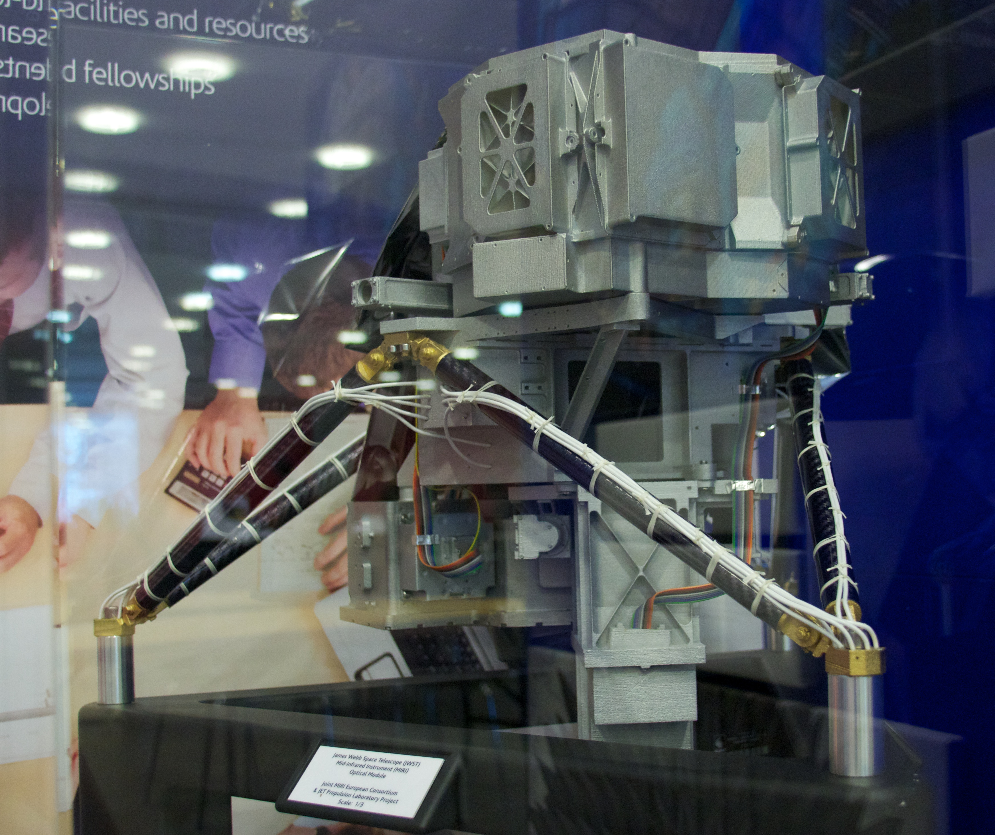 James Webb Space Telescope (JWST) Mid-Infrared Instrument (MIRI). Optical module. Joint MIRI European Consortium & JET Propulsion Laboratory Project. Scale: 1/3. Photograph taken at RAS NAM 2012.